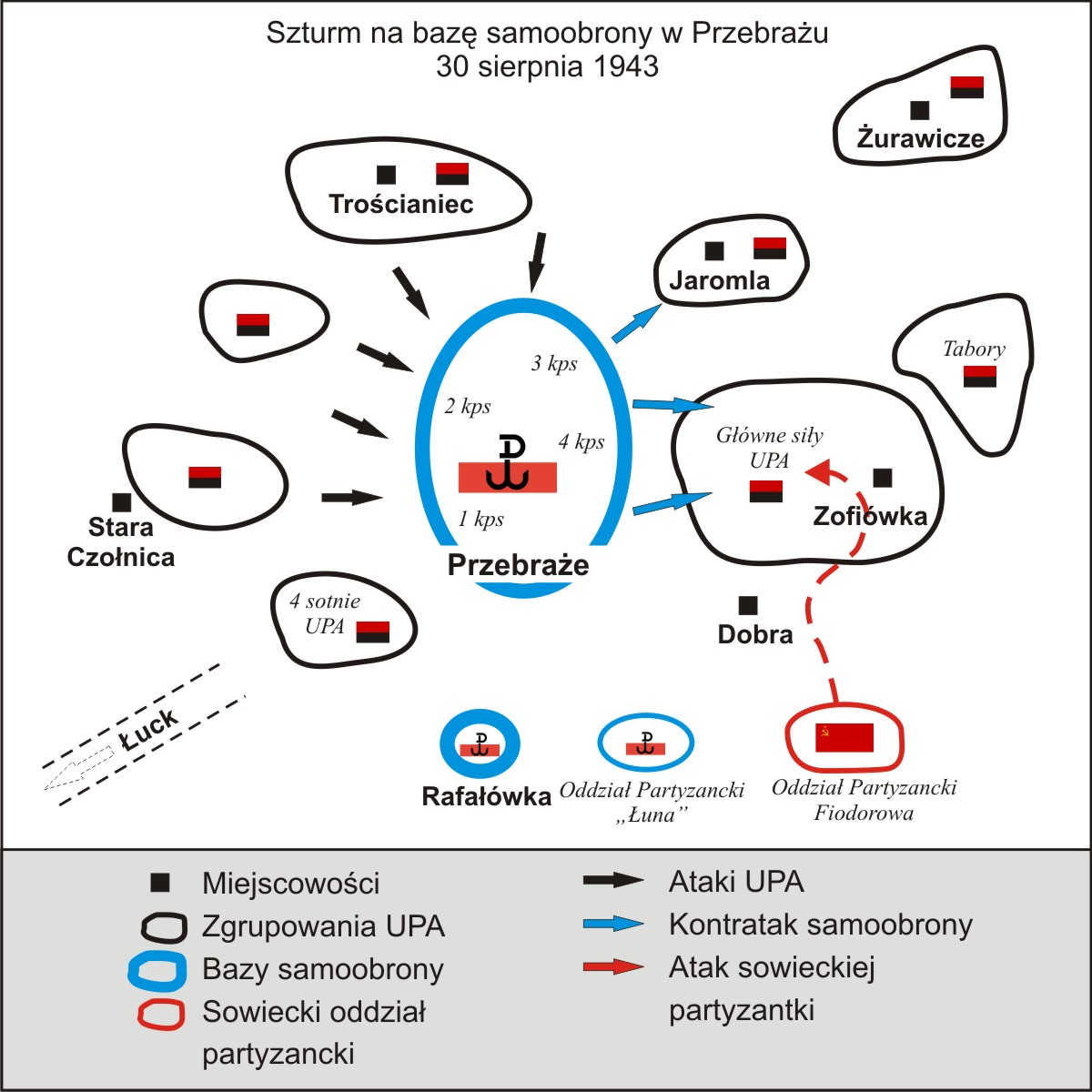 Defence of Przebraże.